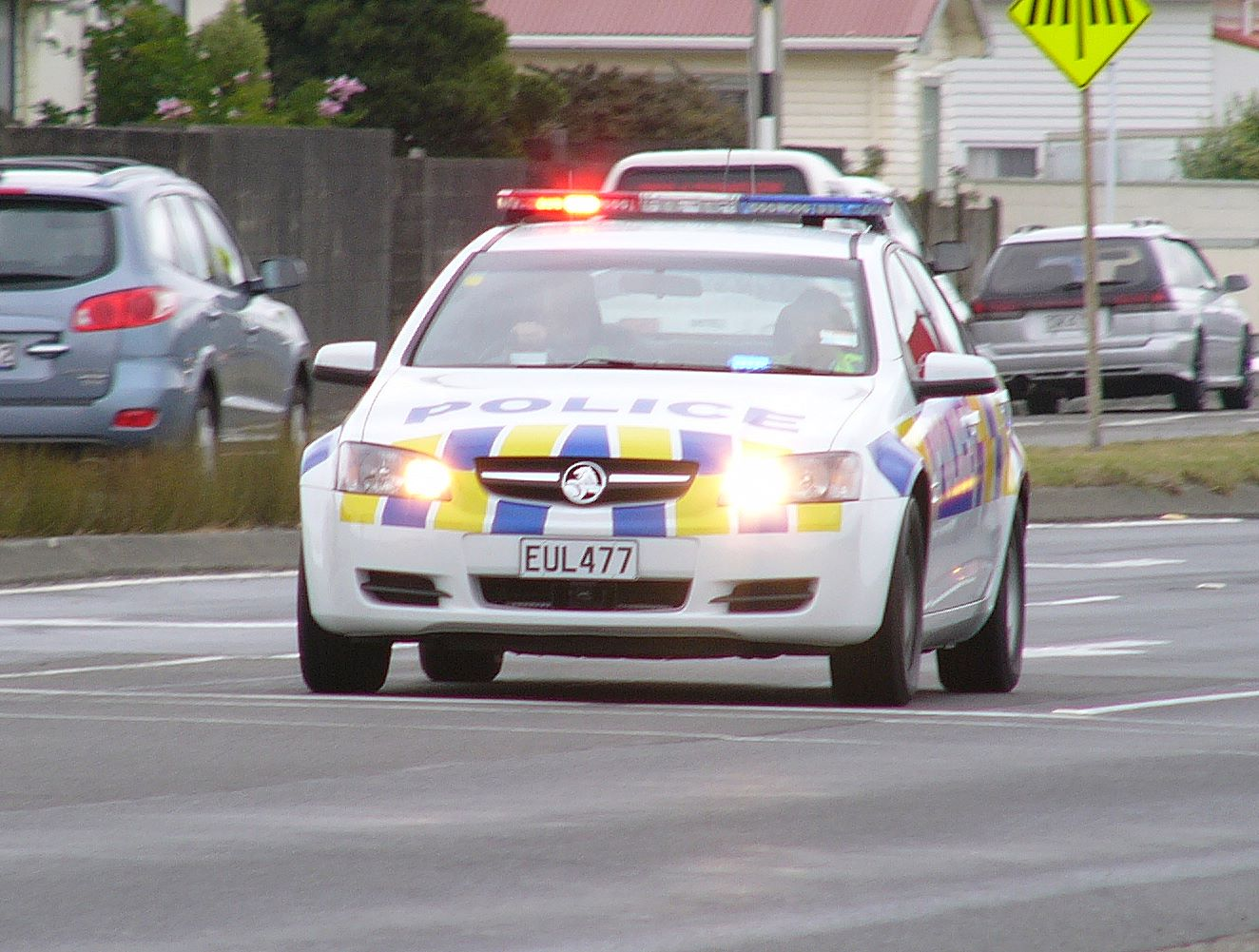 2008–2009 Holden VE Commodore Omega sedan (New Zealand Police), photographed in New Zealand.